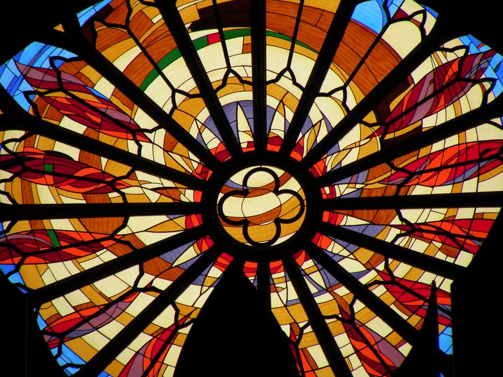 imagen de la vidrieria del santuario. Hloutweg